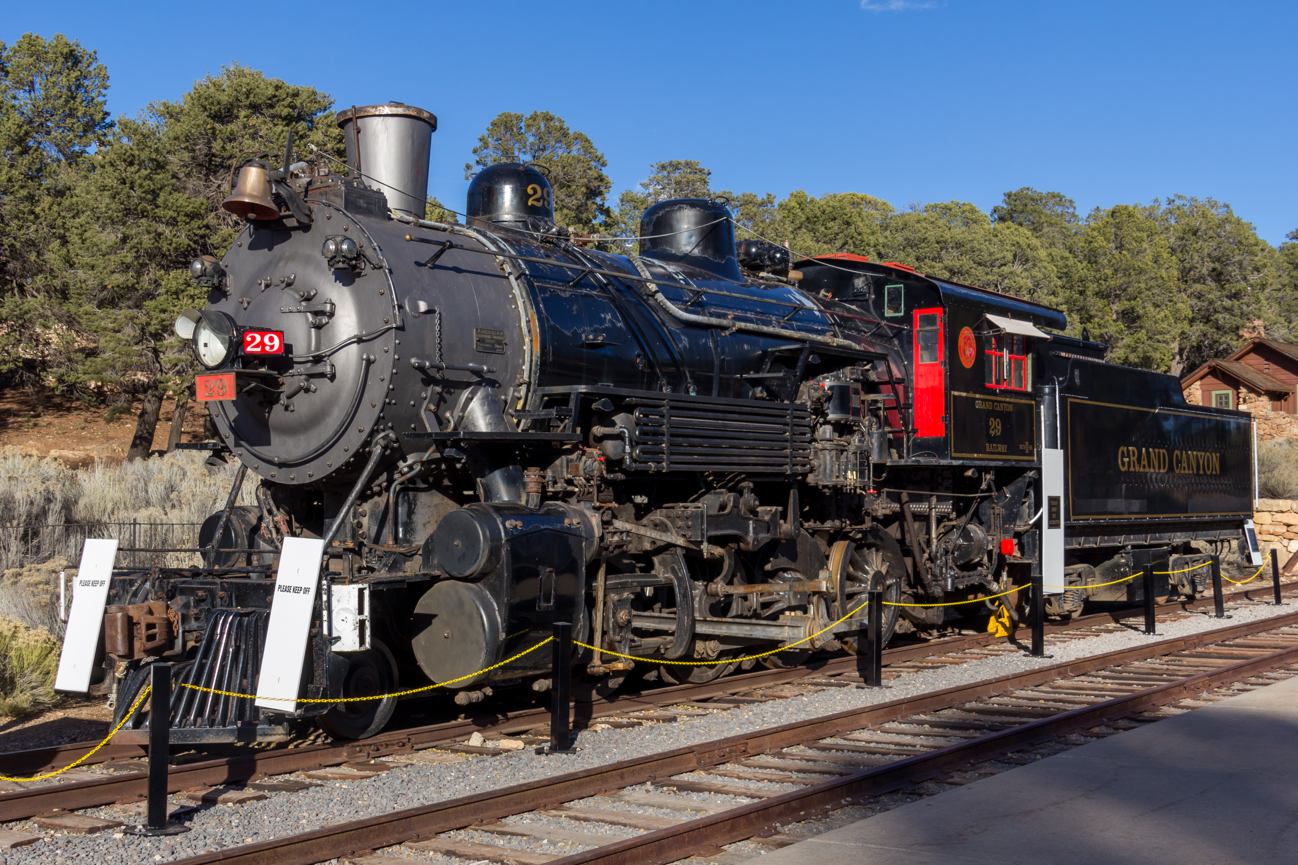 Grand Canyon Railway No. 29, photographed in Grand Canyon Village, Arizona, USA